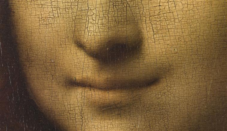 Detail of smile